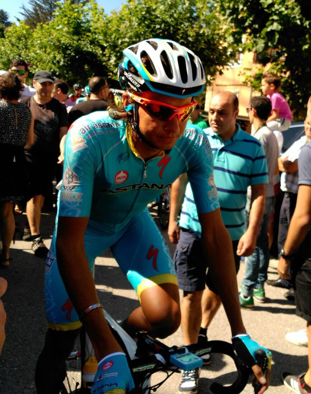 Andrey Zeits (Astana) during 2015 Vuelta a España